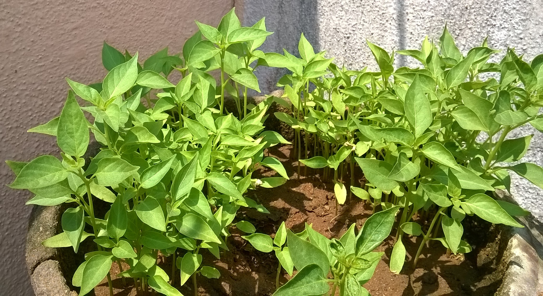 Chili plant